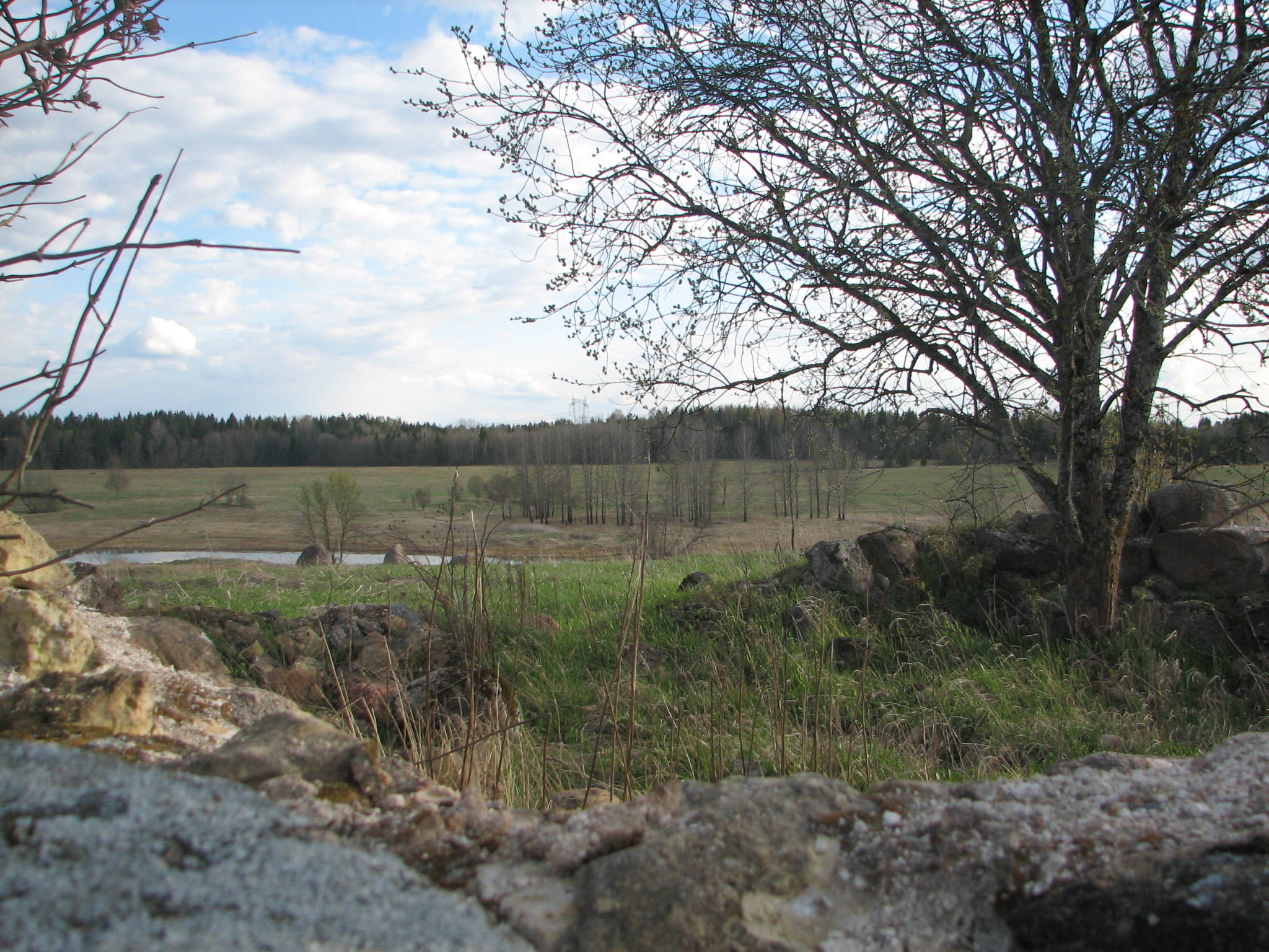 Fulgusi